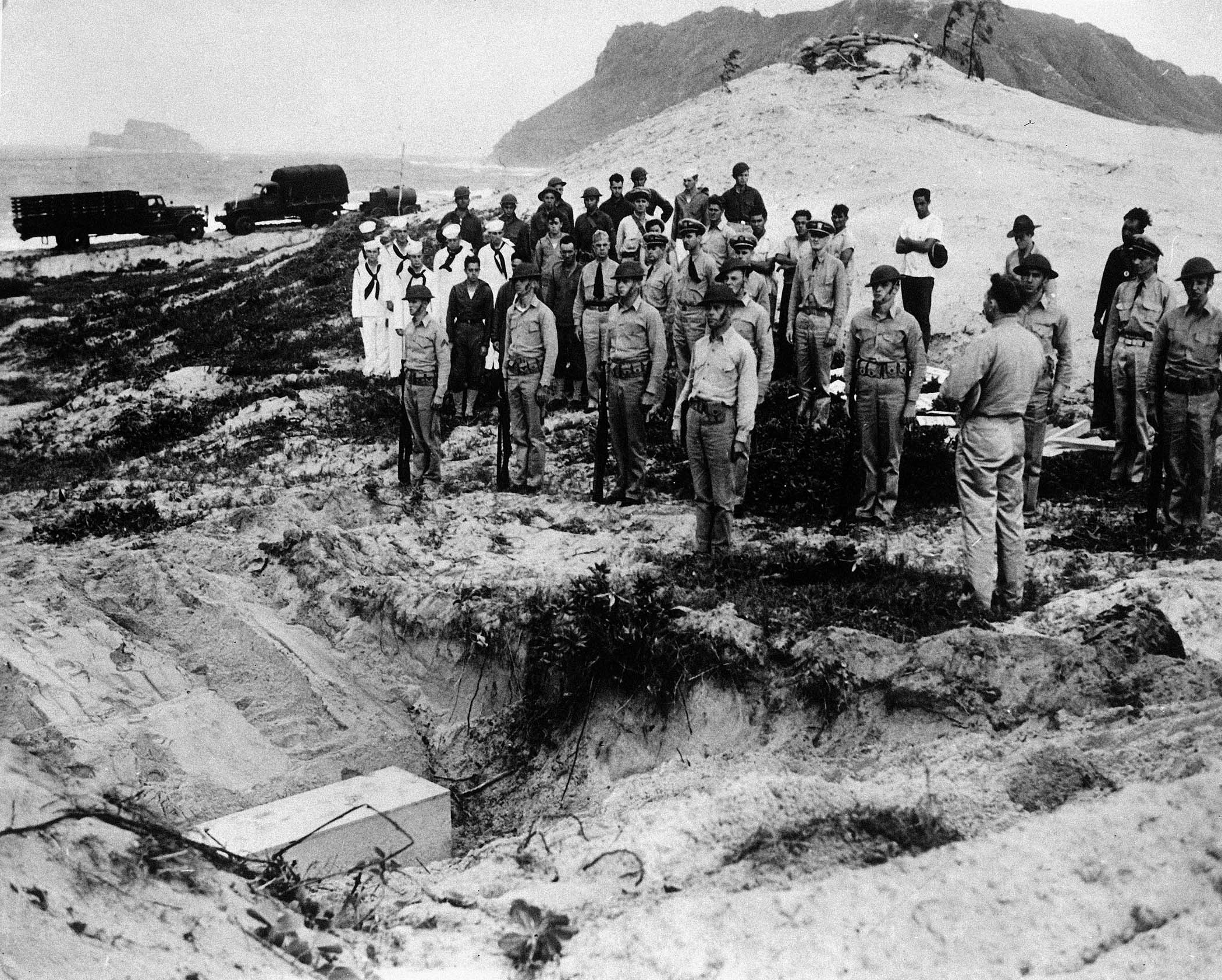 The body of a Japanese Lieutenant who crashed during the attack on Pearl Harbor, Hawaii, Dec. 7, 1941 is buried with military honors by U.S. troops.